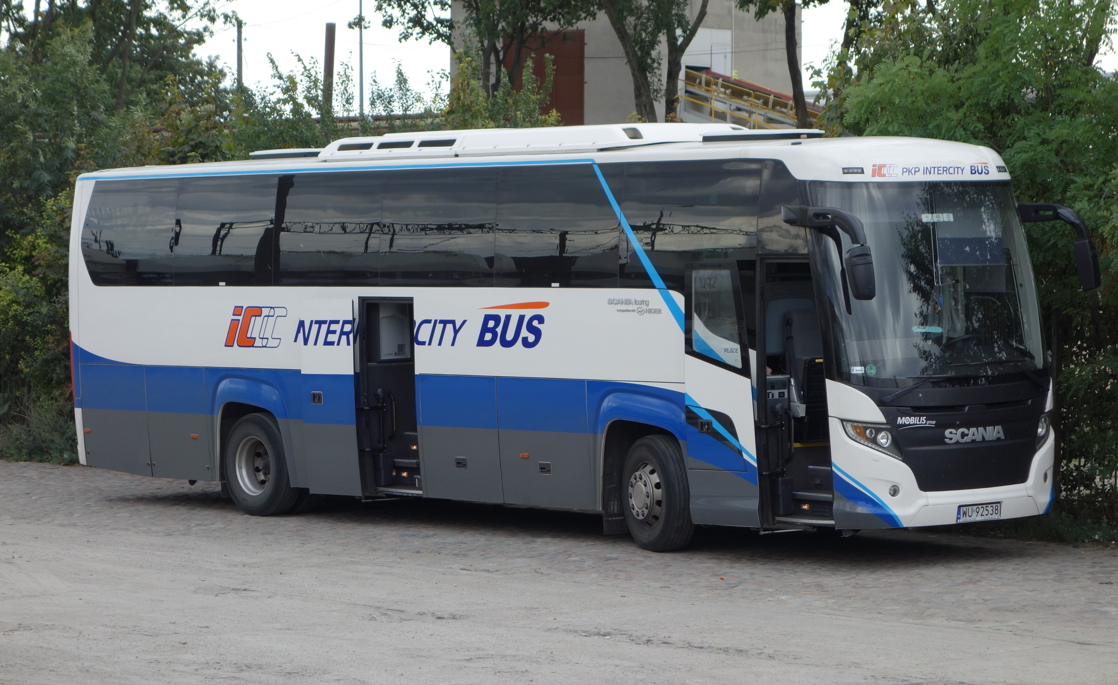 Malbork - autobusowa komunikacja zastępcza (Scania K400EB) Intercity BUS This photo was taken during Railway Wikiexpedition 2014 set up by Wikimedia Polska Association in cooperation with Fundacja Grupy PKP. You can see all photographs in category Wikiekspedycja kolejowa 2014.